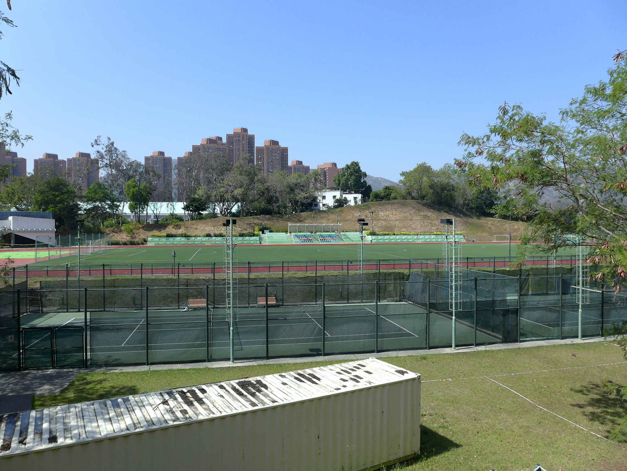 Lingnan University Sports ground